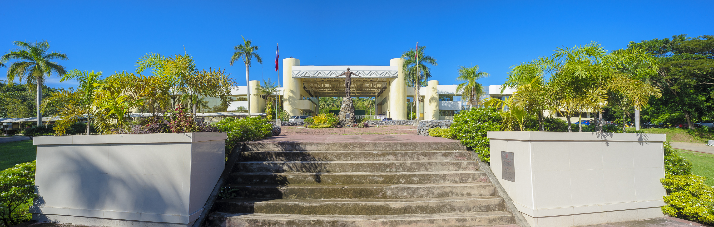 UP Mindanao's Oblation in the Oblation Circle, in front of Administration Building. Taken on 28 November 2019.